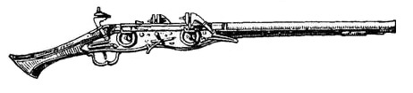 3-charged wheel-lock pistol (Italy 1570) by Wendelin Boeheim